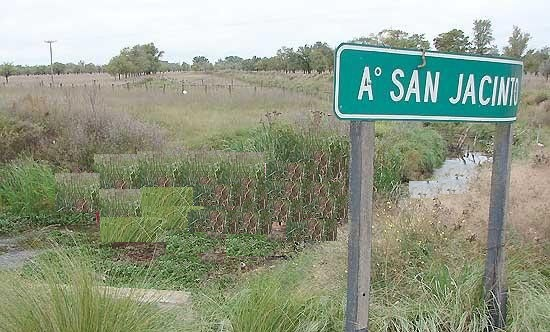 San Jacinto Stream (Argentina)